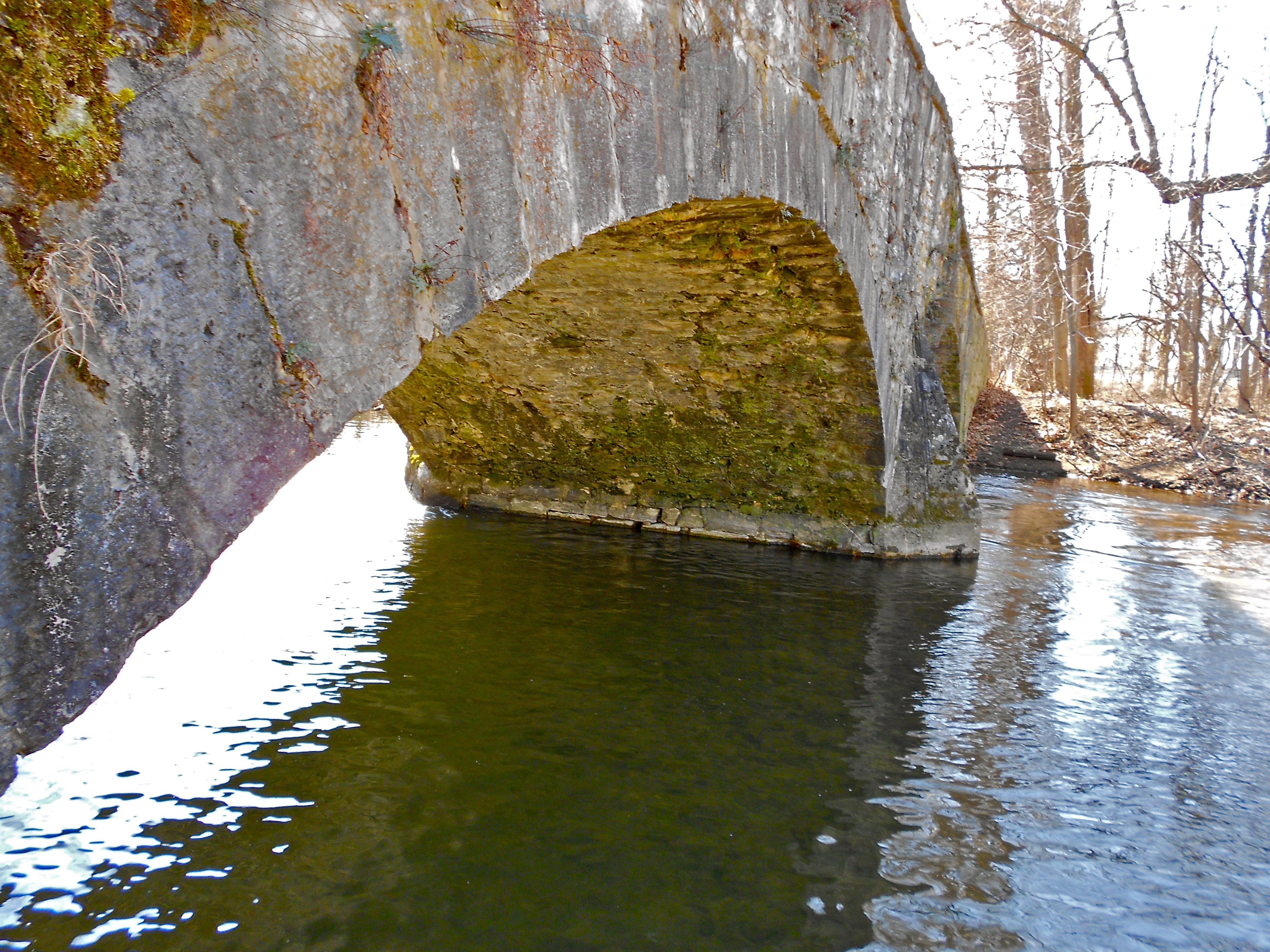 East arch (view from NE) of Welty's Mill Bridge on the NRHP since January 6, 1983. South of Waynesboro on Pennsylvania Route 997, in Washington Township, Franklin County, Pennsylvania. Built 1856.